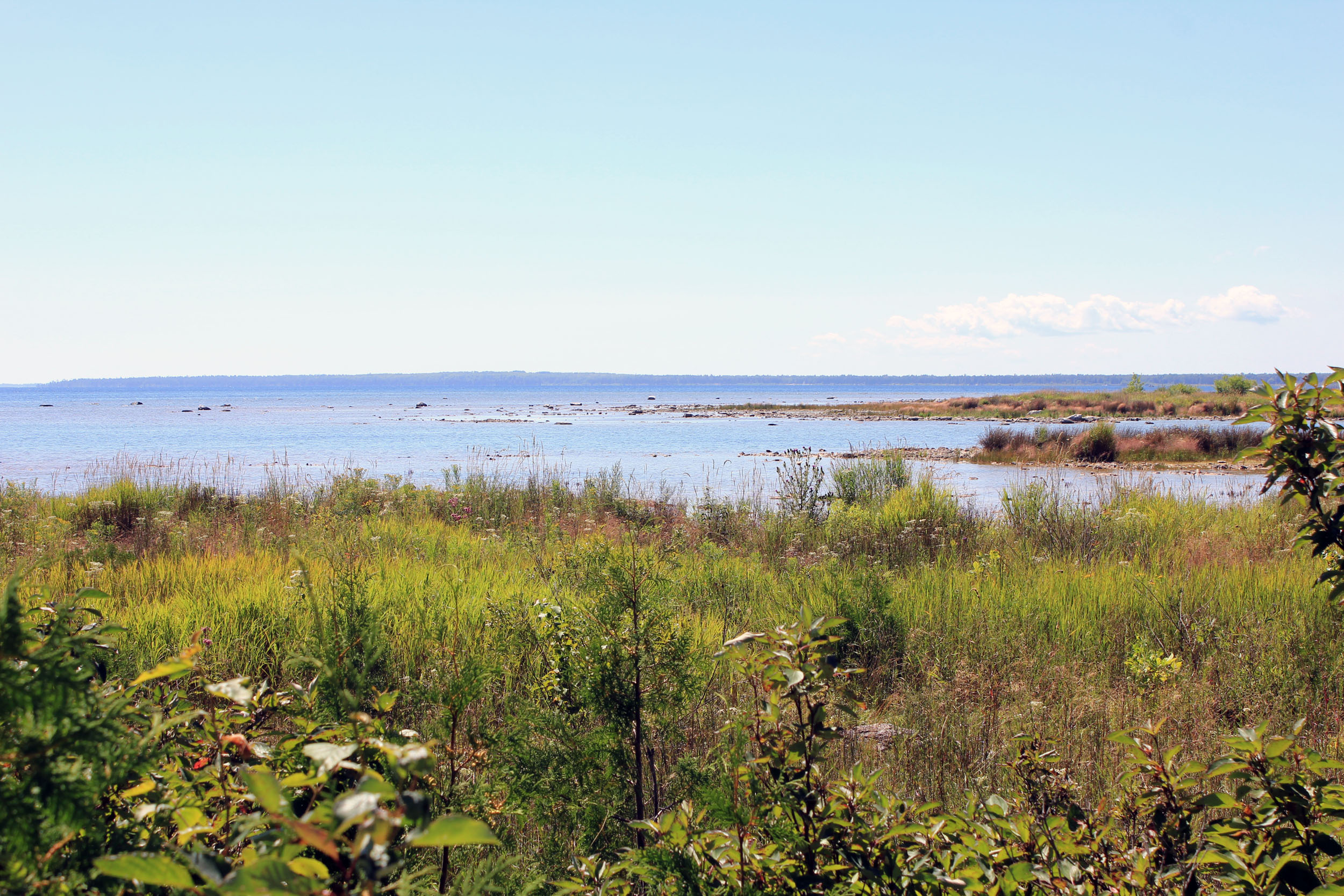 Newport State Park is a 2373 Acre Park near Ellison Bay in Wisconsin. It is Wisconsin's only Wilderness designated park and has 11 miles of Lake Michigan Shorel Looking at the lake a small distance from Shore